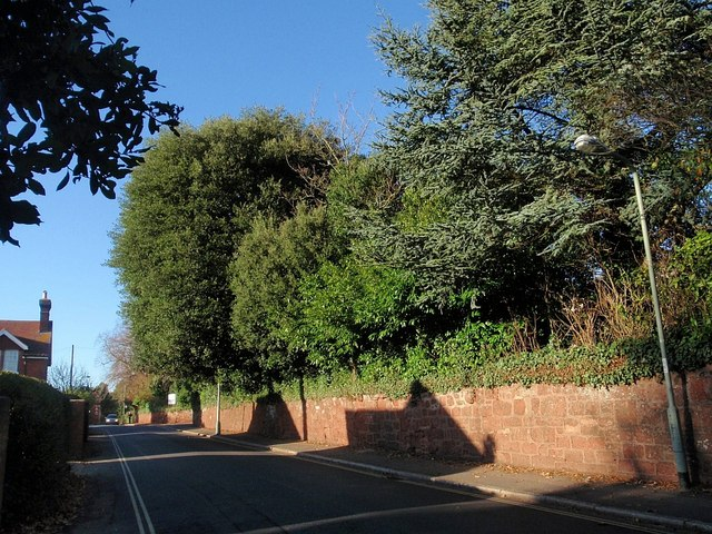 Wonford Road, Exeter A rather charming road, here bordering (on the right) the grounds of Evergreen House and Matford Lodge, Victorian houses which are now occupied by Devon Primary Care Trust Child and Adolescent Mental Health Services.